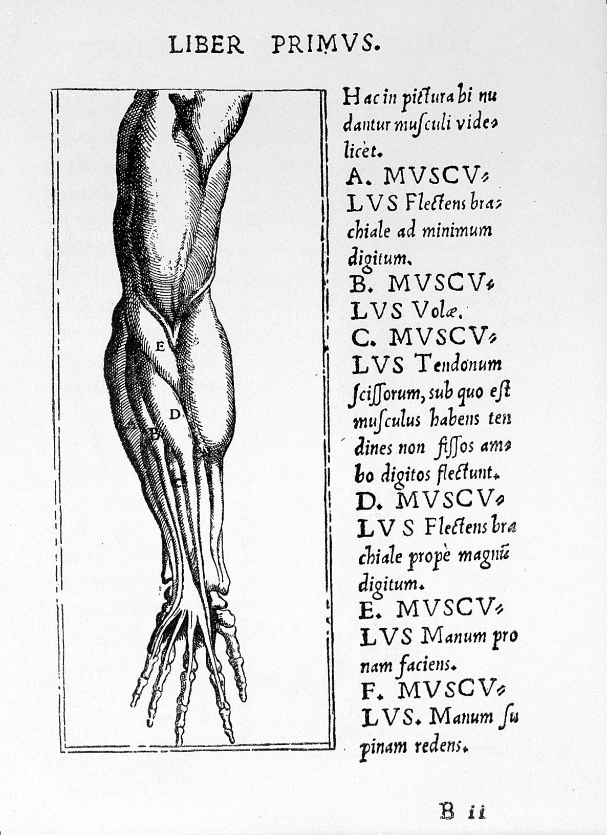 Arm musculature. General Collections Keywords: Giambattista Canano